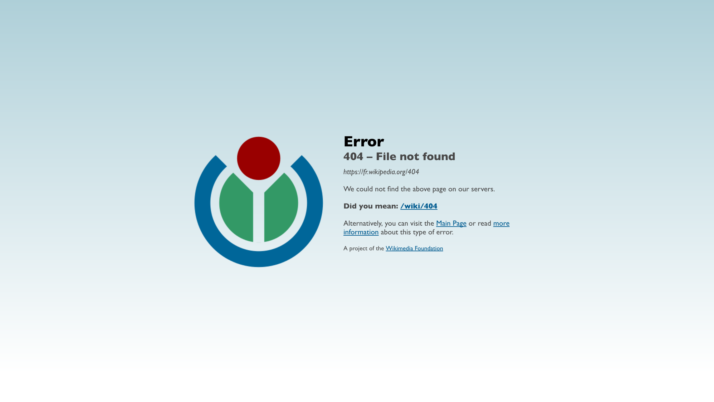 404 error page of Wikipedia.